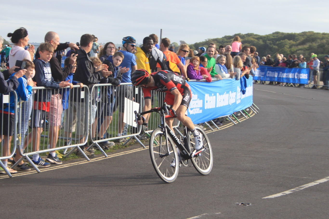 Rohan Dennis looks over his shoulder as he turns into the finishing straight of stage 7b of the 2016 Tour of Britain. The peloton, with Steve Cummings in the lead, can bee seen between the spectators but Dennis maintained a 6 second lead when he crossed the line.